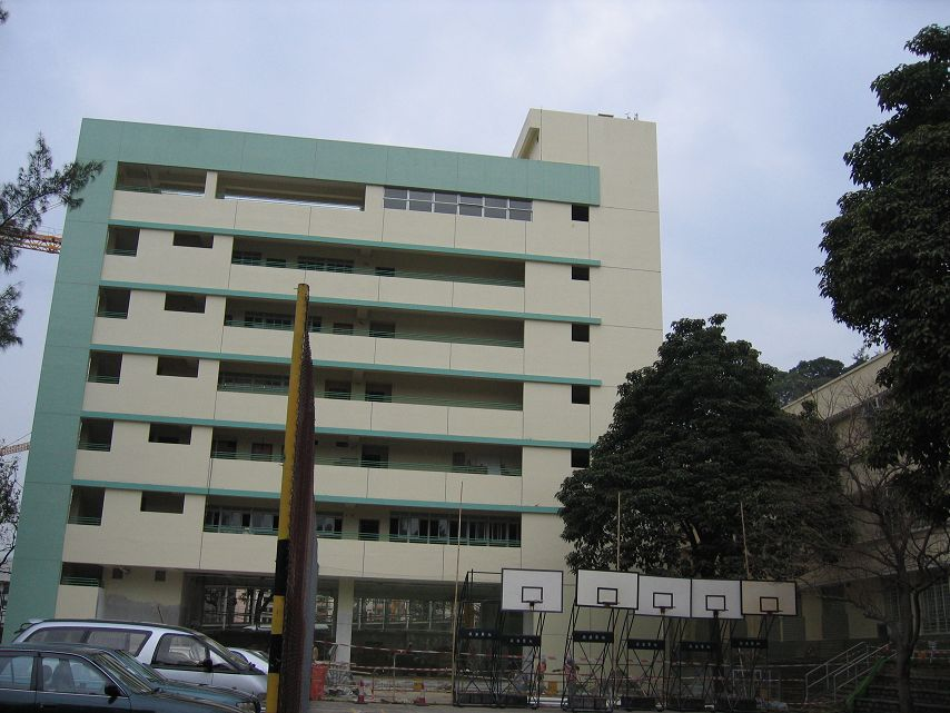 new wing of Tang king po school